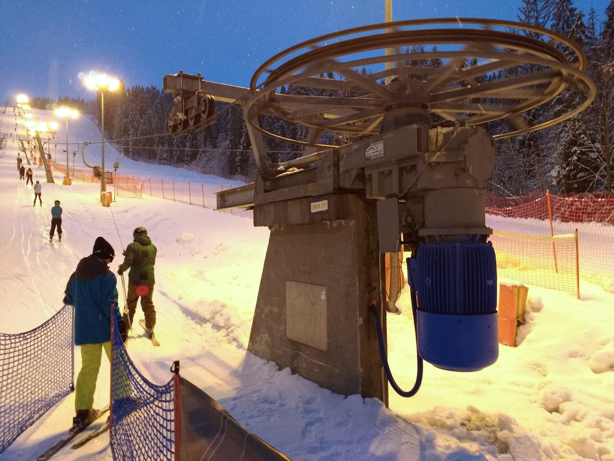 Ski lift in Białka Tatrzańska, Poland.